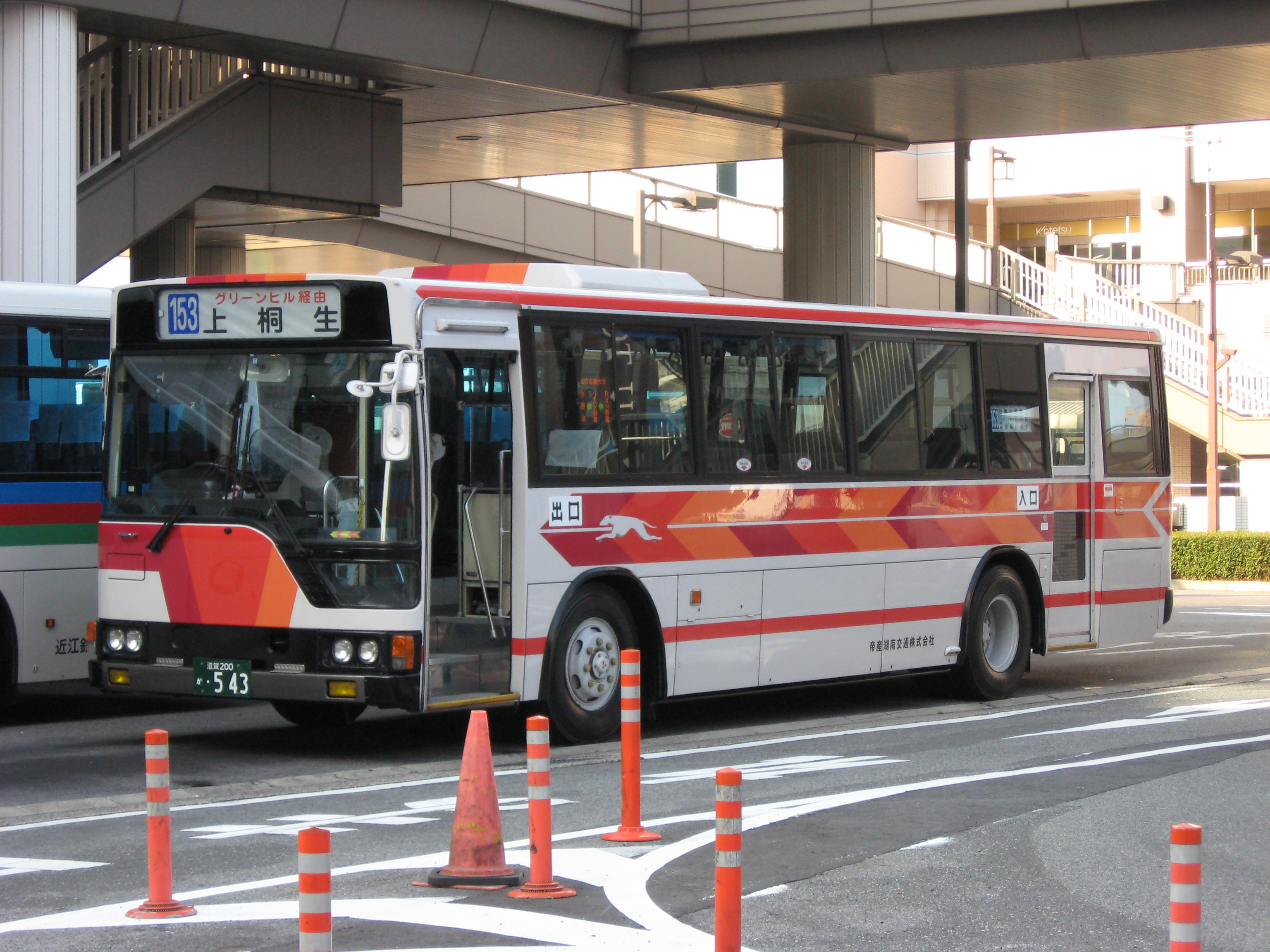 Teisan Konan Kotsu 0543